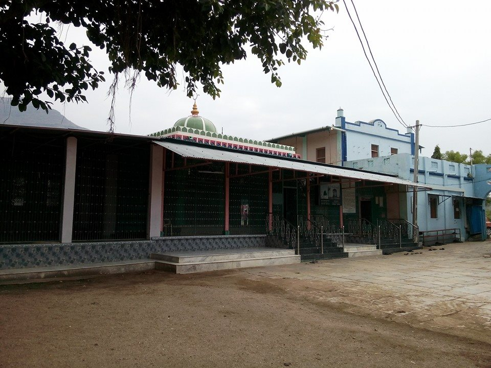 Hazrat Bandagi Miyan Syed Khundmir RZ Son-in-law and companion of Hazrat Imam Mahdi AS; born in 885 AH; attained martyrdom on Shawwal 14, 930 AH at the age of 45